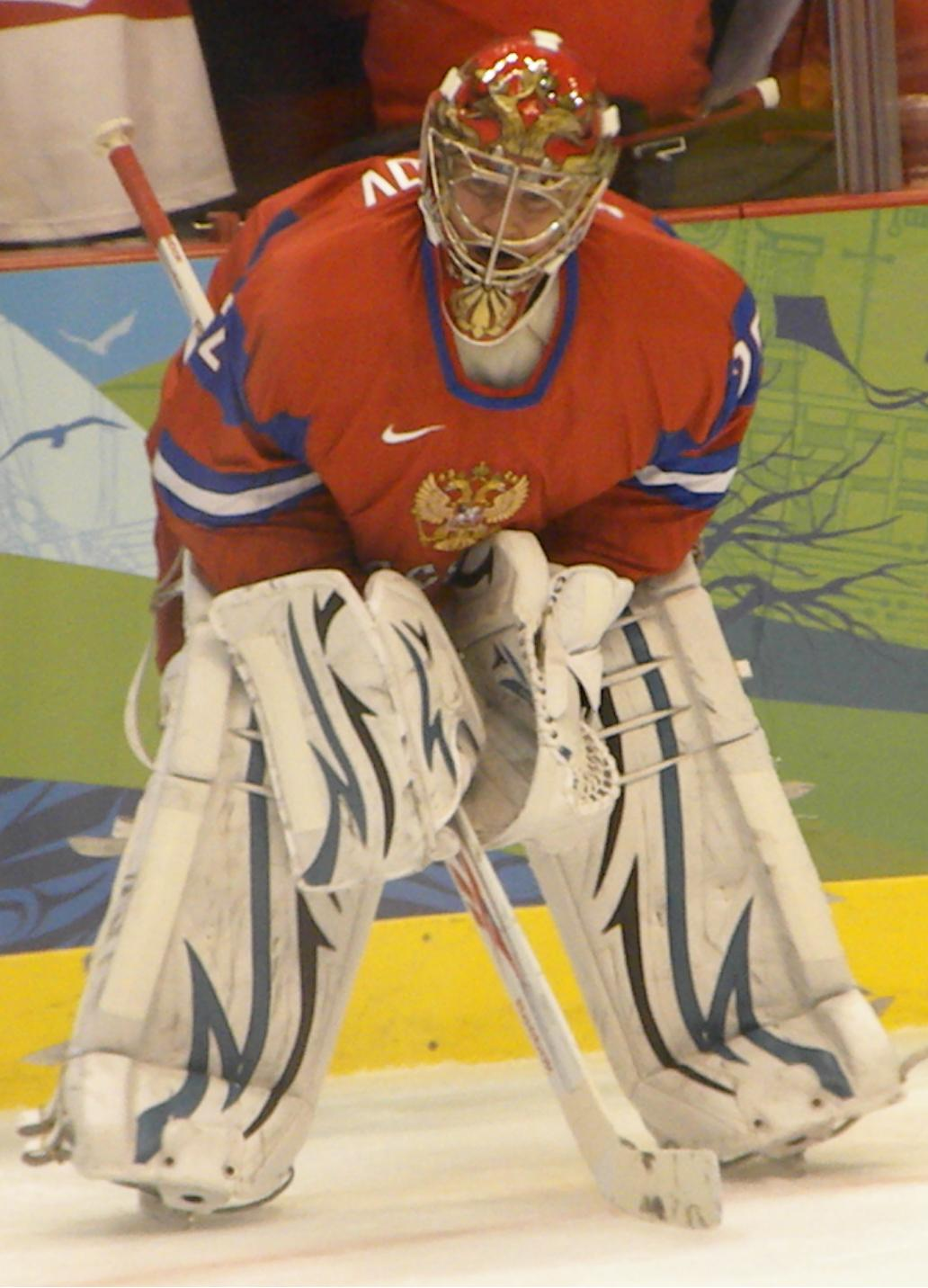 Evgeni Nabokov of the Russia men's national ice hockey team, warming up before a match against the Latvia men's national ice hockey team in the 2010 Winter Olympics at Canada Hockey Place on February 16, 2010.